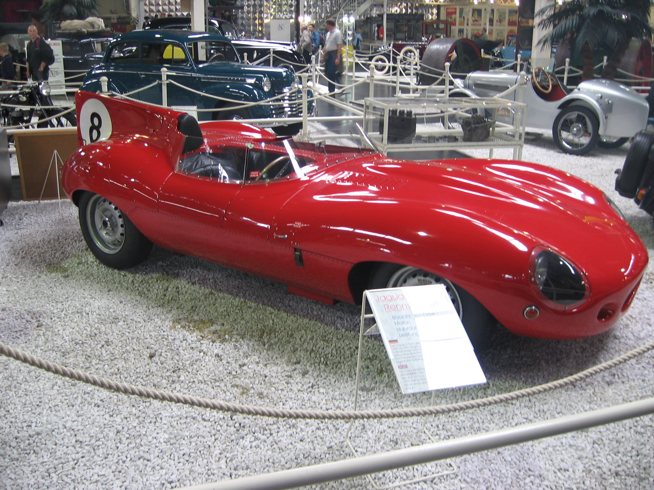 Picture of a Jaguar D-Type racing car from 1954 at the Auto- und Technikmuseum Sinsheim / Germany. The picture was taken in may 2006 by Christian Kath (me).